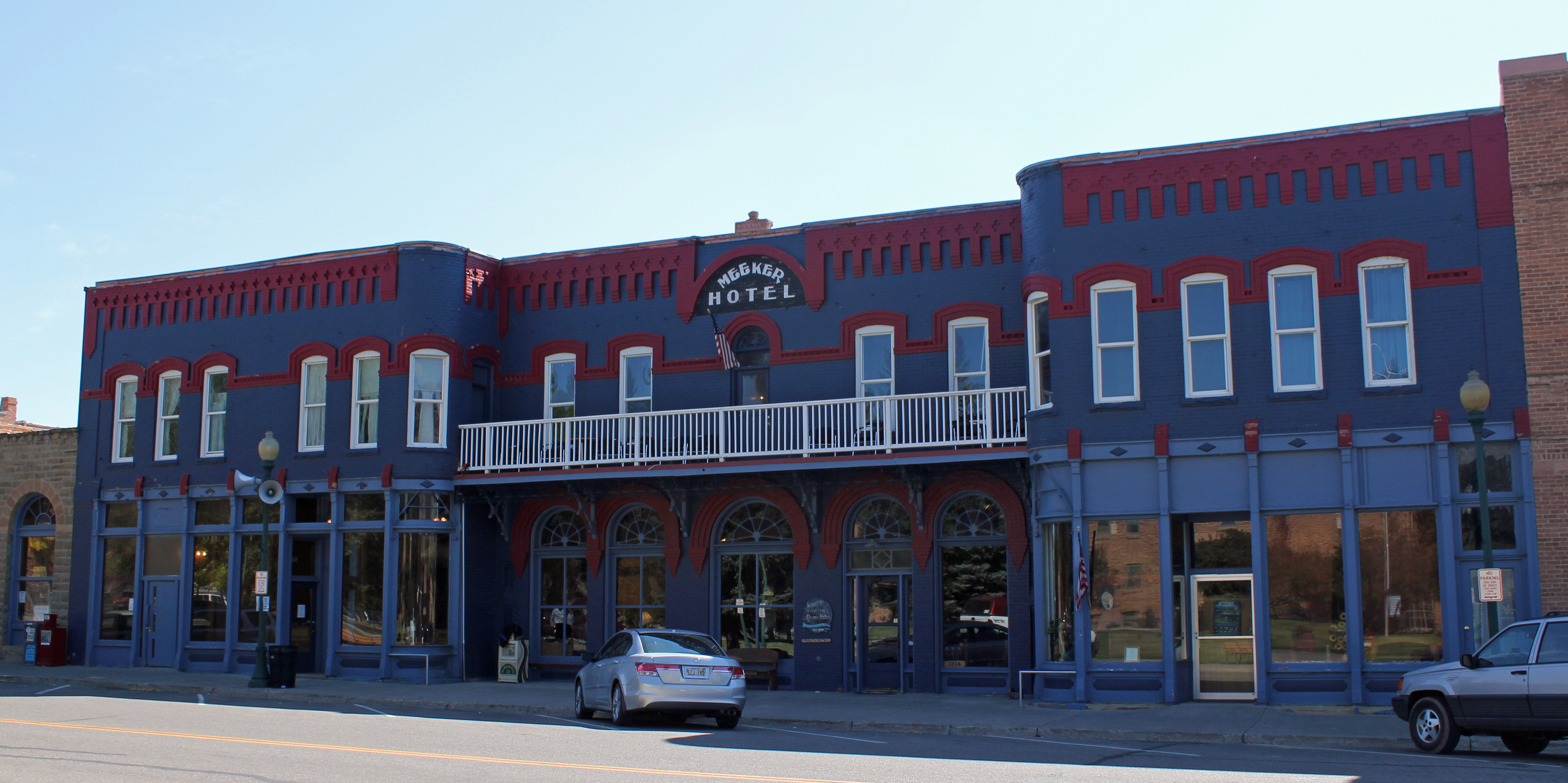 The Hotel Meeker, located at 560 Main Street in Meeker, Colorado. The property is listed on the National Register of Historic Places.